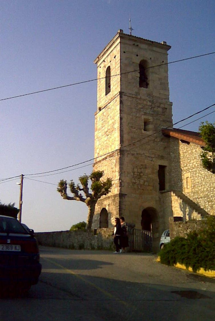 Church tower in Soto de la Marina (Santa Cruz de Bezana, Cantabria)